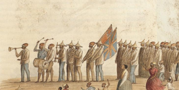 Cape Town procesion on the anniverary of slave emancipation